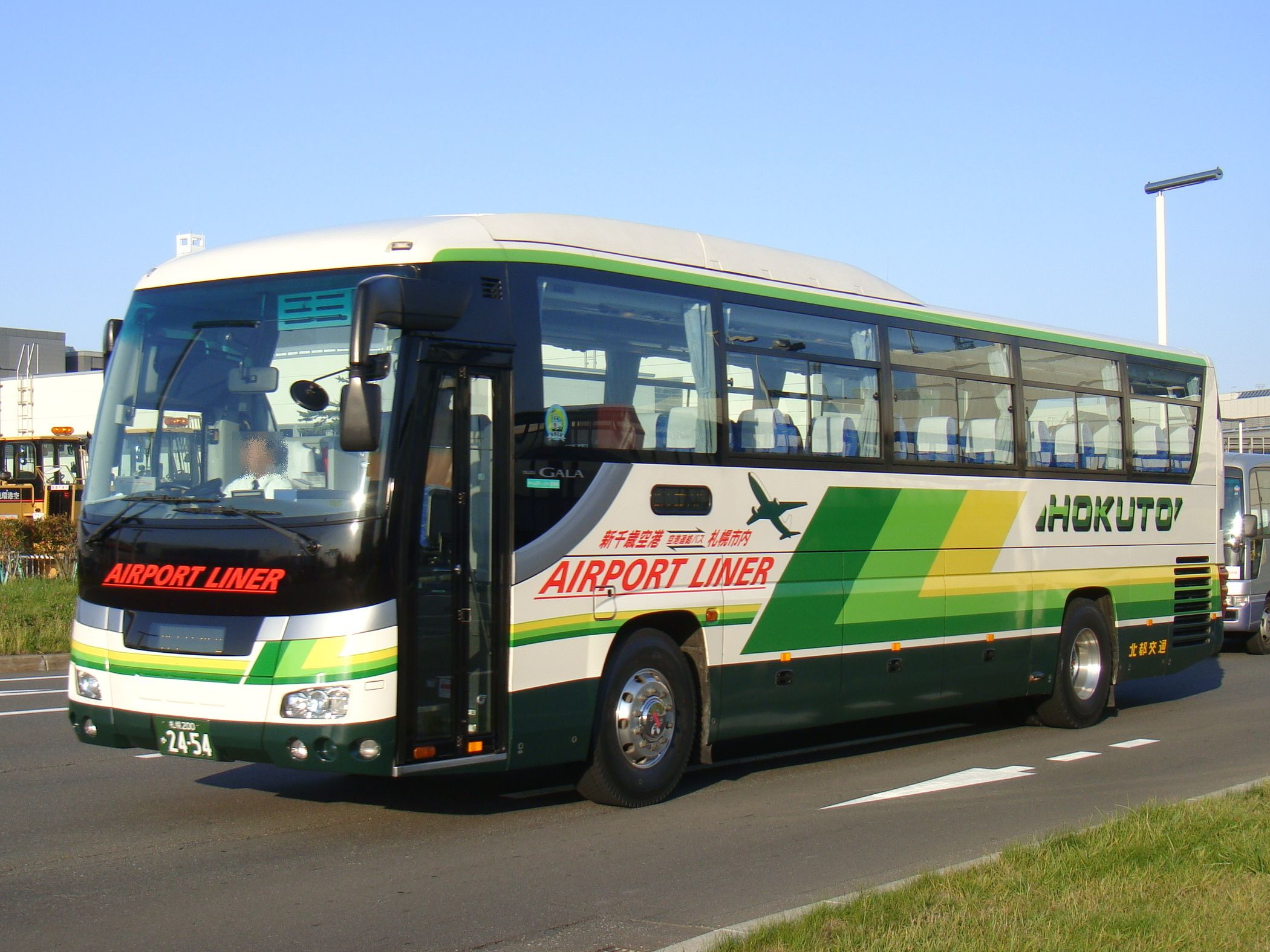 Sapporo to New Chitose Airport